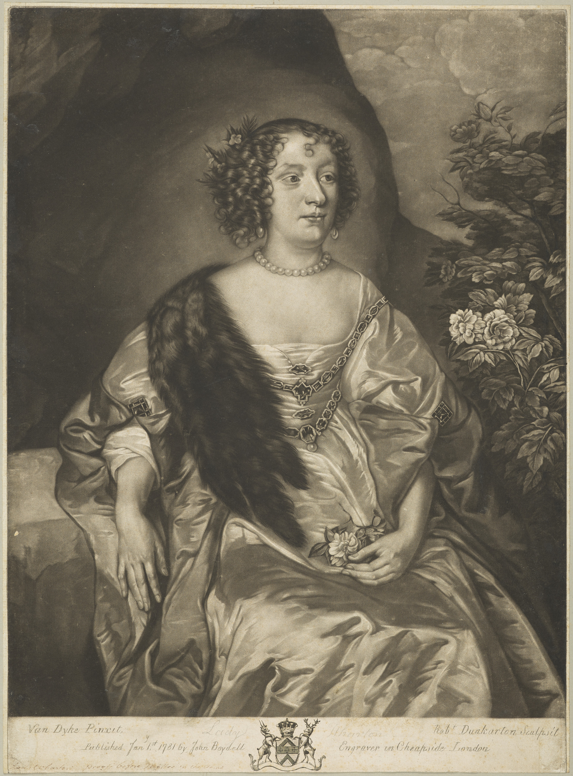 Title:Lady Philadelphia (Carey) Wharton, d. 1654. Wife of Sir Thomas Wharton; daughter of Robert, 1st Earl of MonmouthAccession number:EP II 368.1Artist:Robert DunkartonEnglishAfter:Sir Anthony van DyckGallery:Scottish National Portrait Gallery(Print Room)Object type:Work on paperMaterials: Mezzotint on paper Date created:Published 1781Measurements:38.10 x 29.80 cmCredit line:Bequeathed by William Findlay Watson 1886